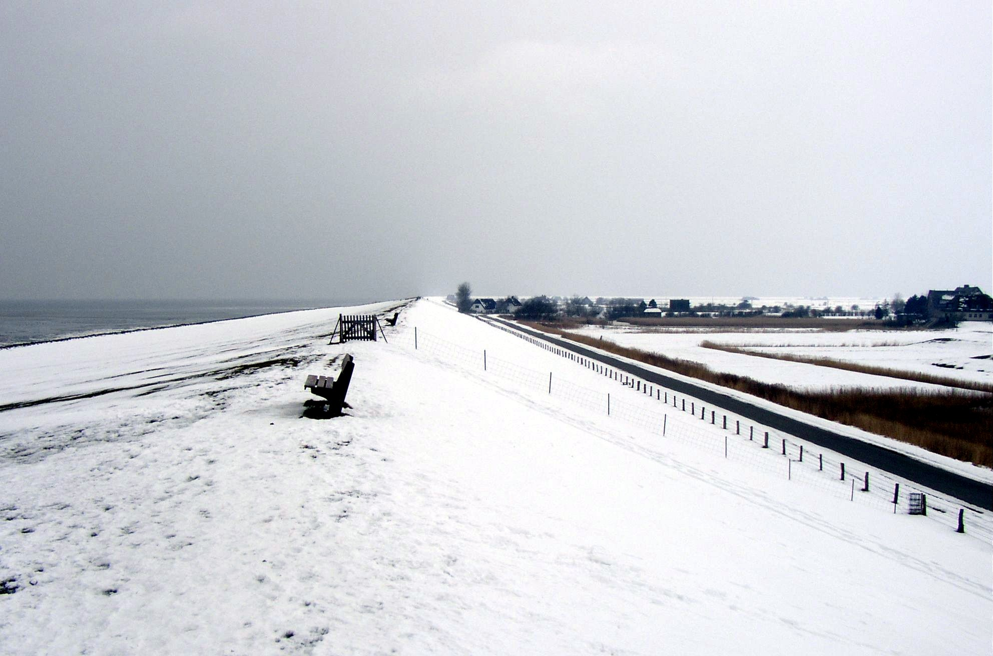 Dike on island Pellworm